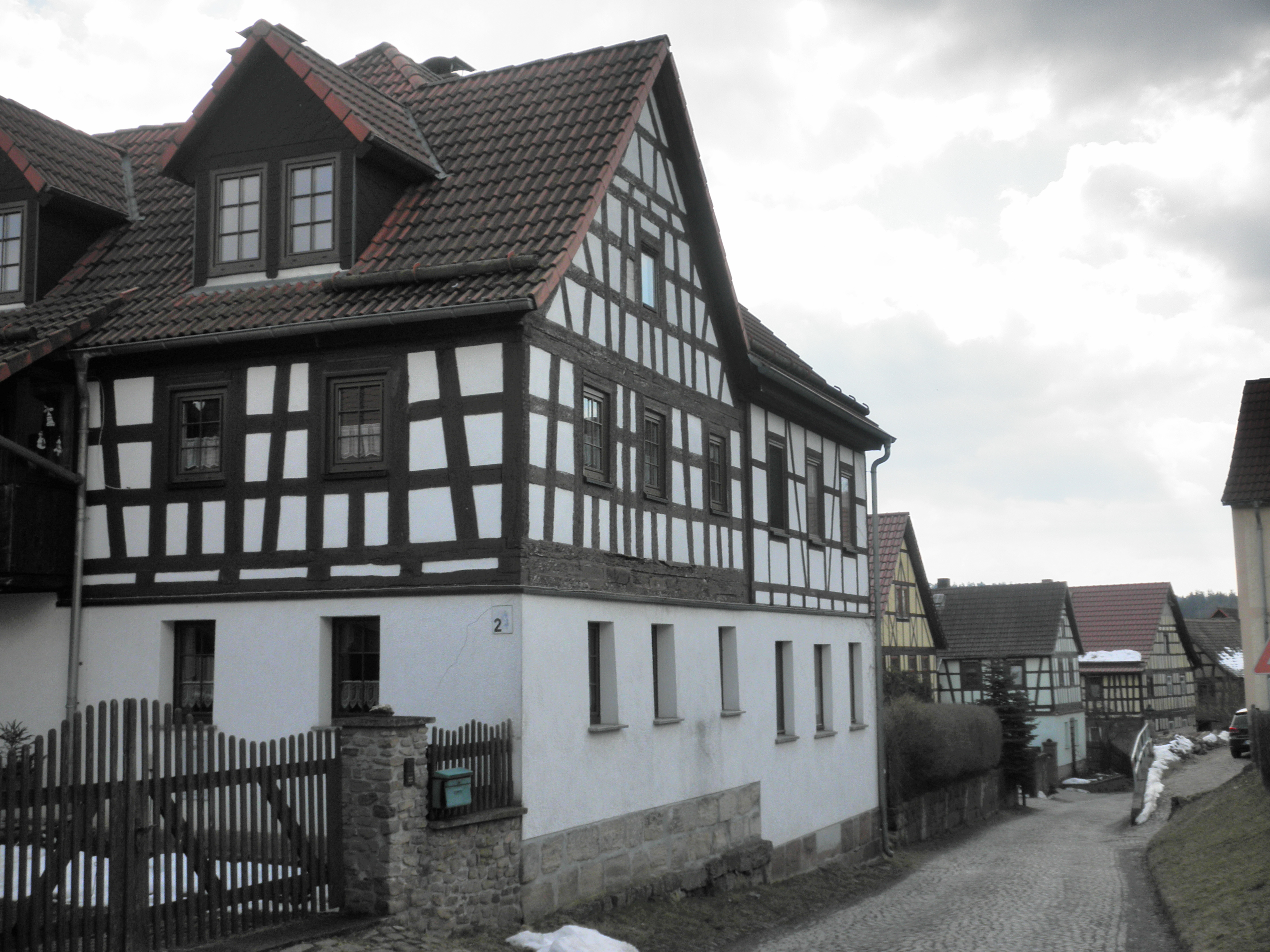 Street in Seitenbrück (Oberbodnitz) in Thuringia